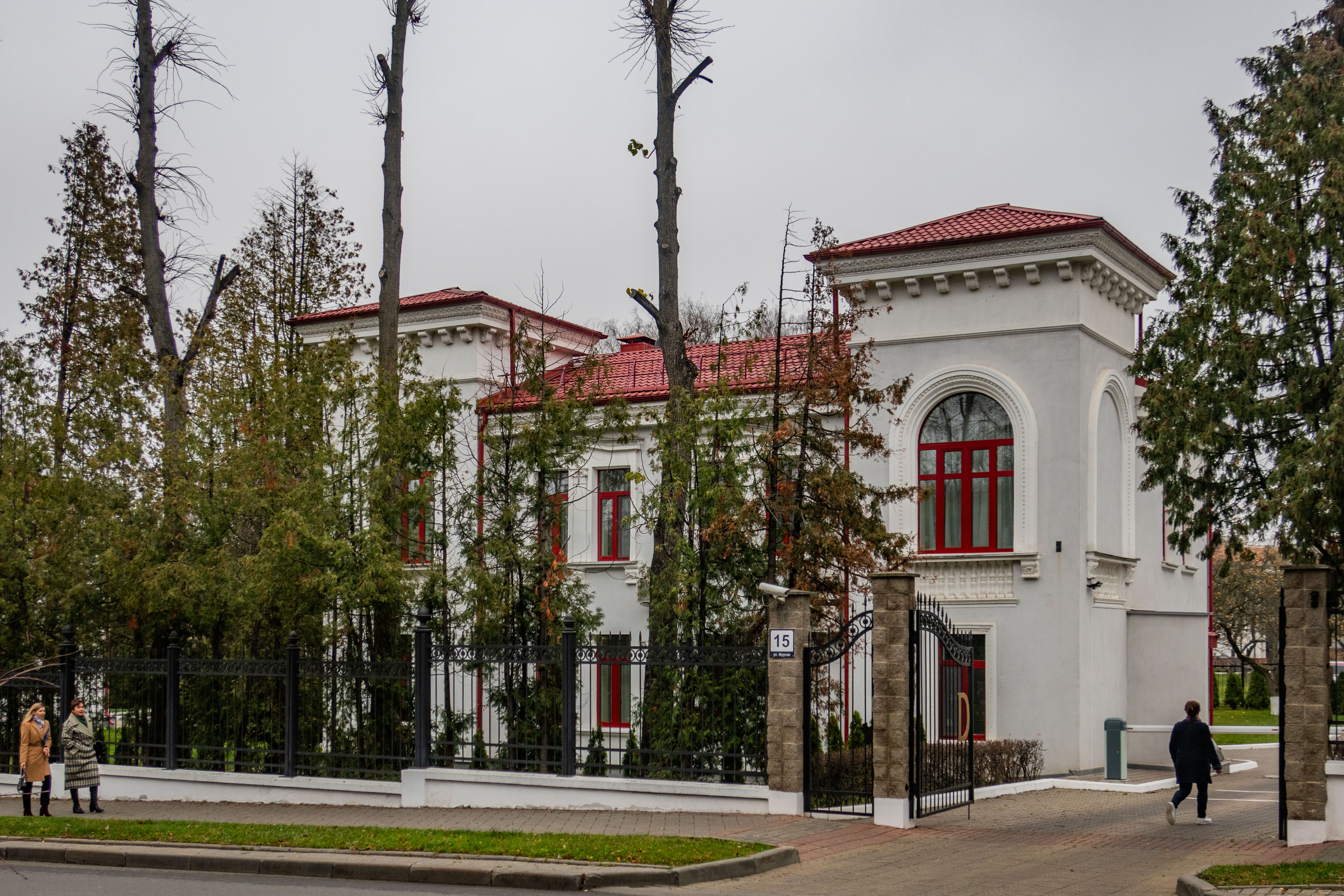 Frunze street 15. Minsk, Belarus